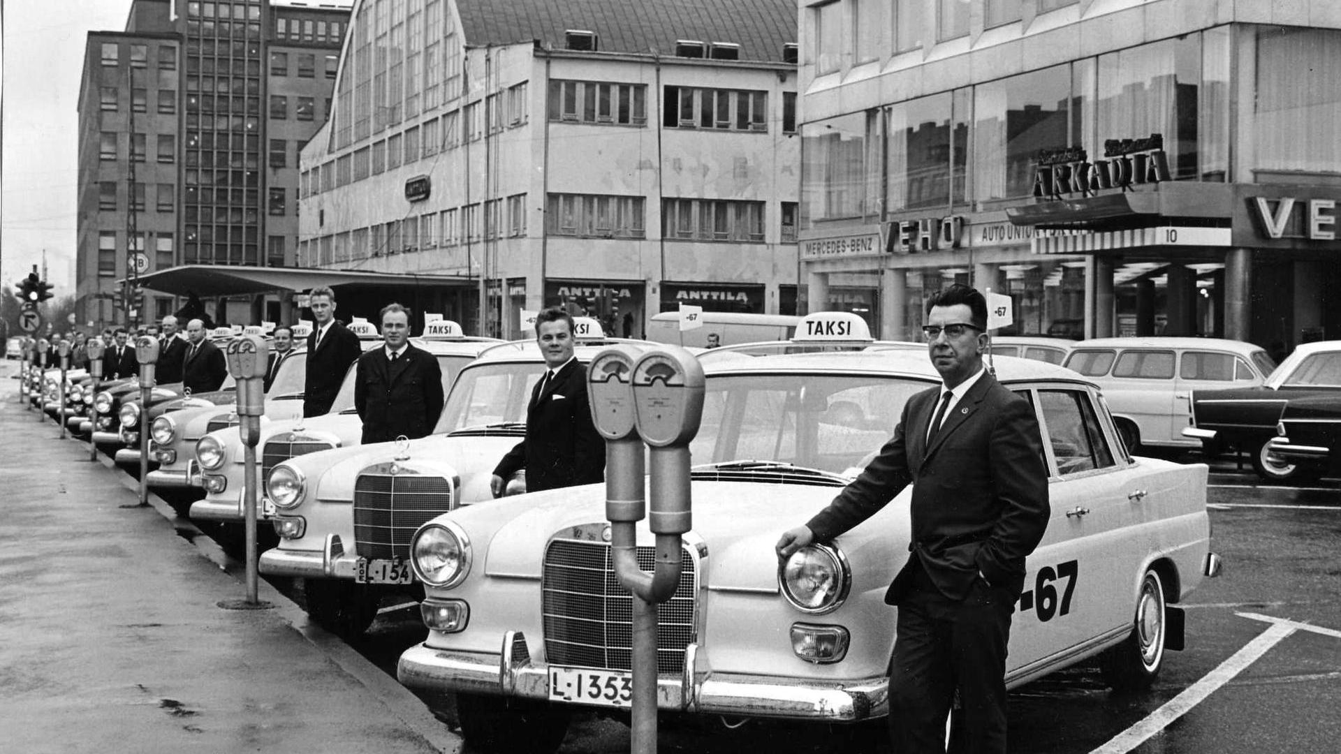 Photograph of taxi drivers from Rovaniemi and Kemi after they raced to Helsinki with their new Mercedes-Benz 200 Diesel vehicles.